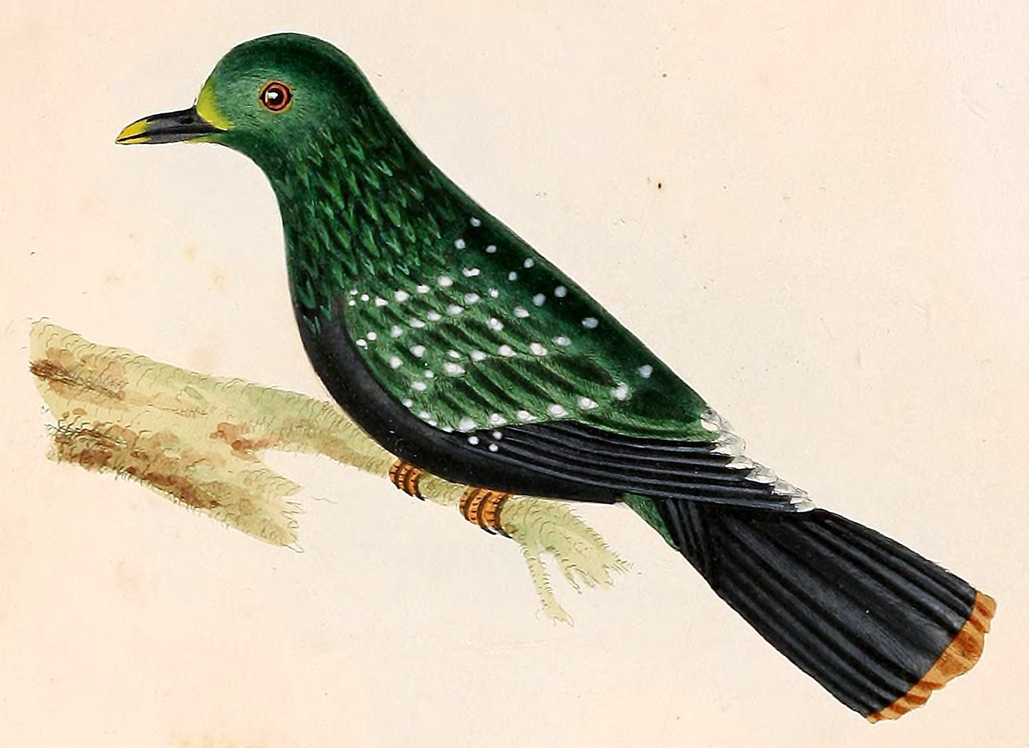 Spotted green pigeon as depicted in A General History of Birds.